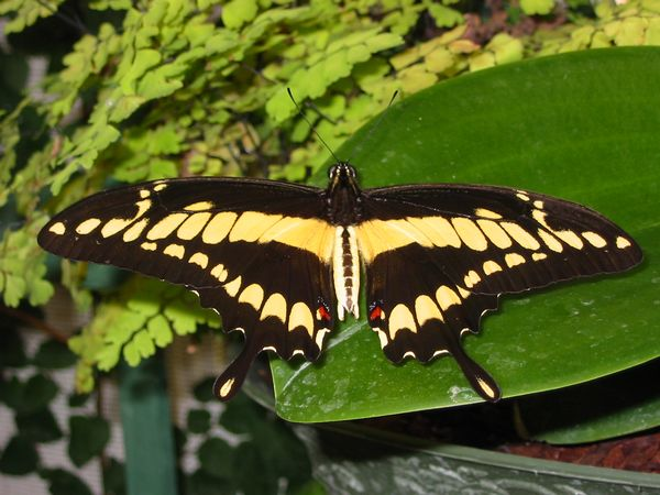 Thoas Swallowtail (Papilio thoas) Picture taken by Donar Reiskoffer.